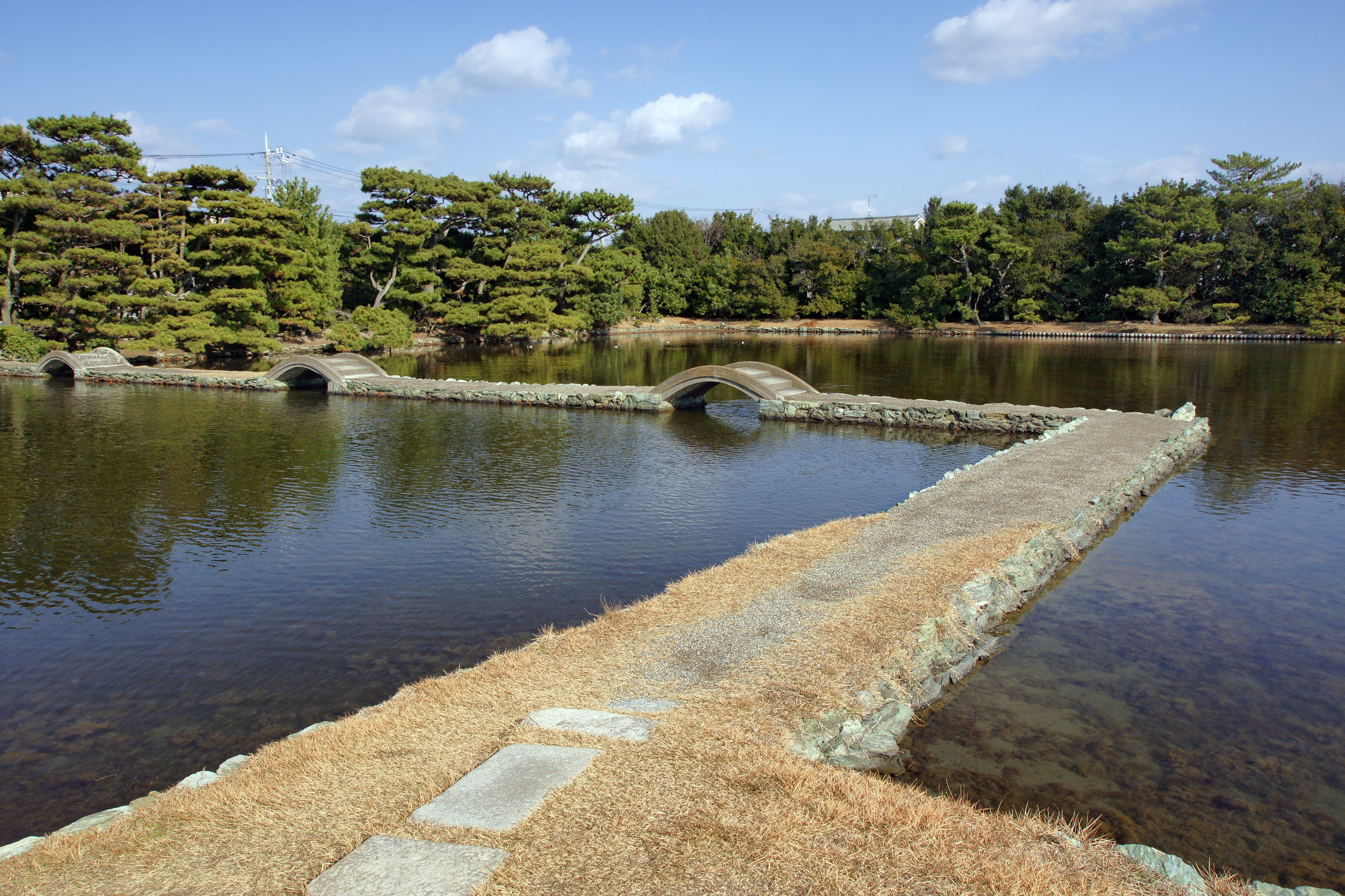 Yosuien, Wakayama, Wakayama prefecture, Japan